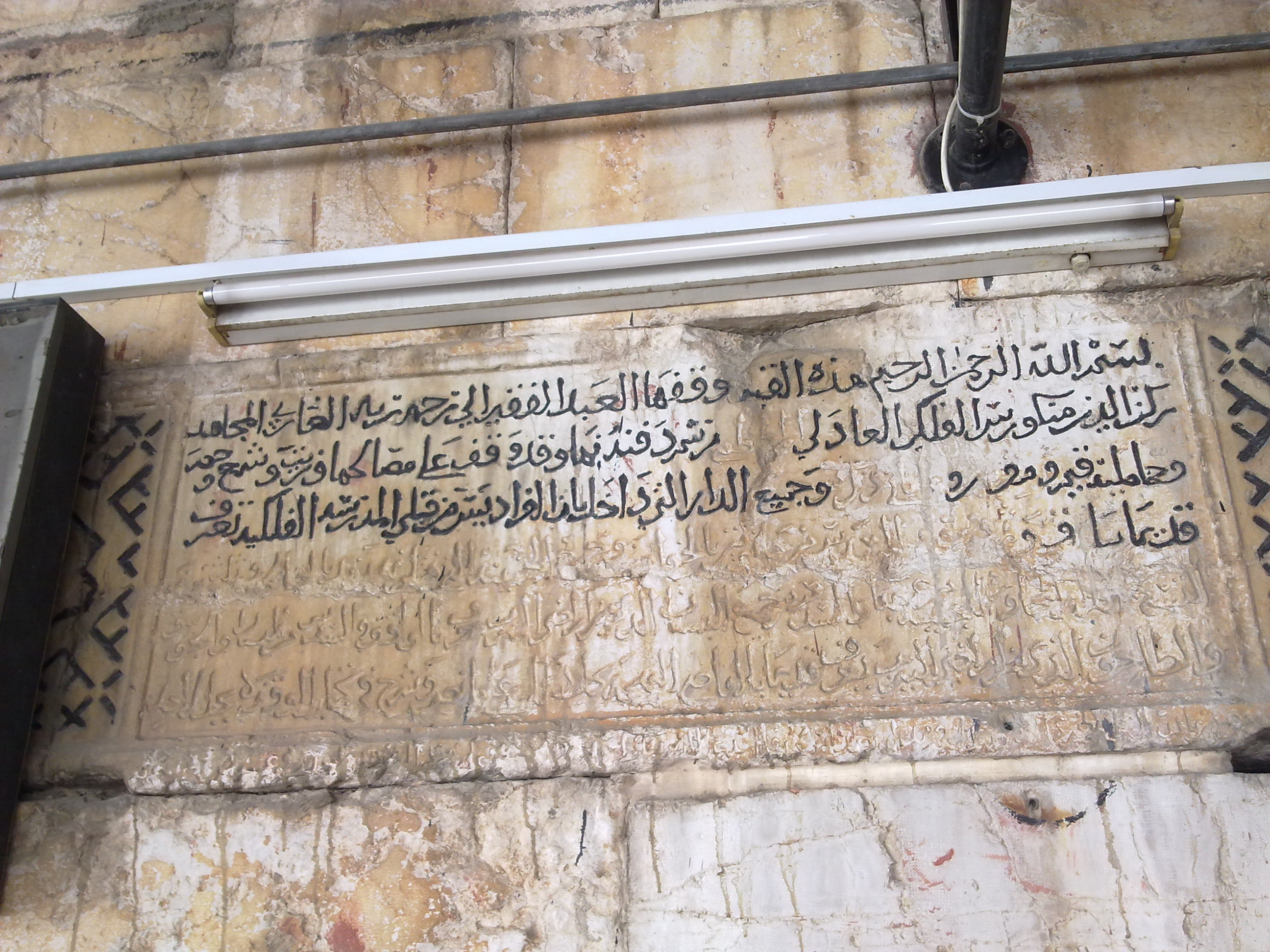 anitquity stone for ruknia school (al madrsh al ruknia)